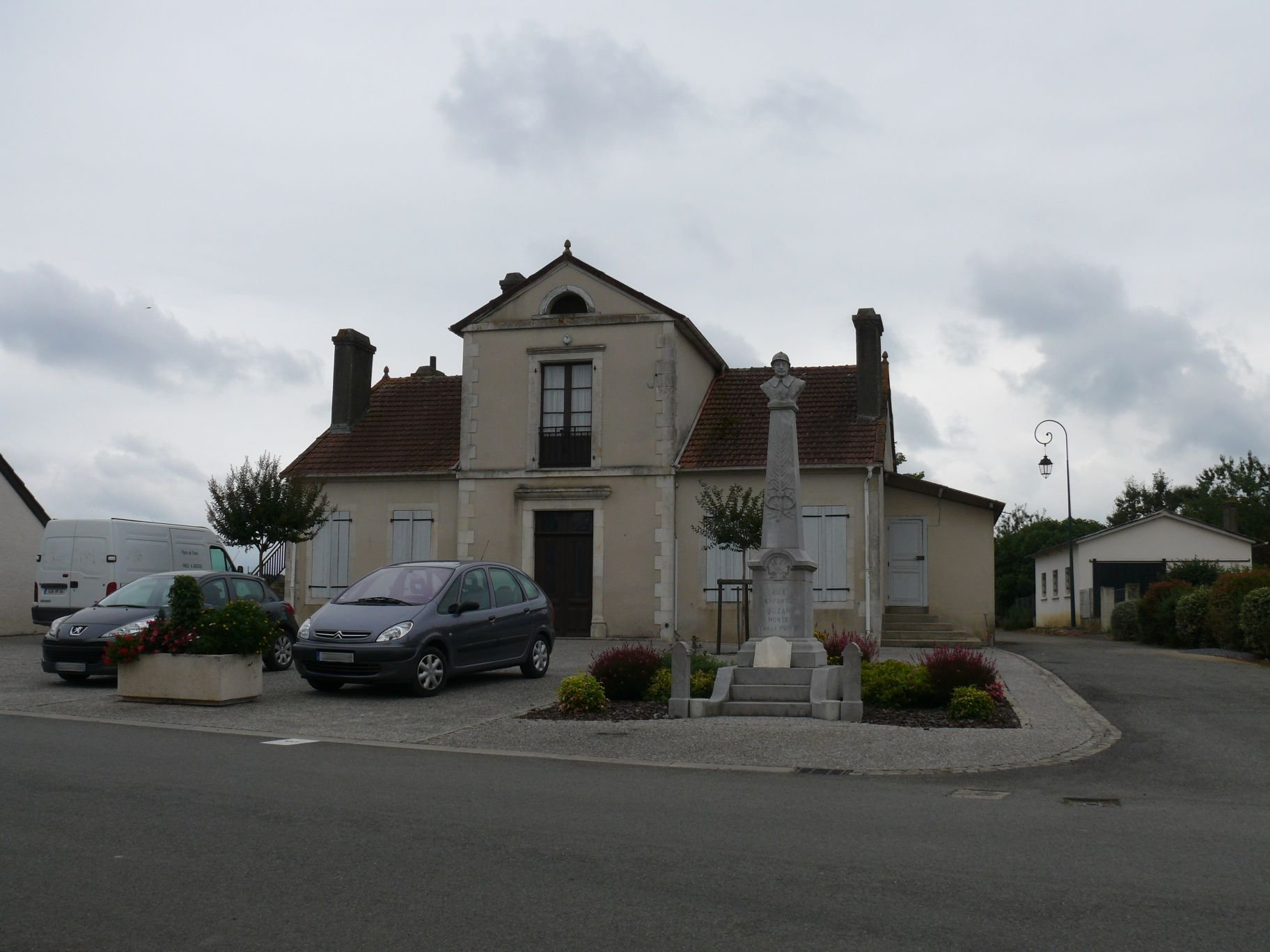 The townshall of Uzan (Pyrénées-Atlantiques, France).